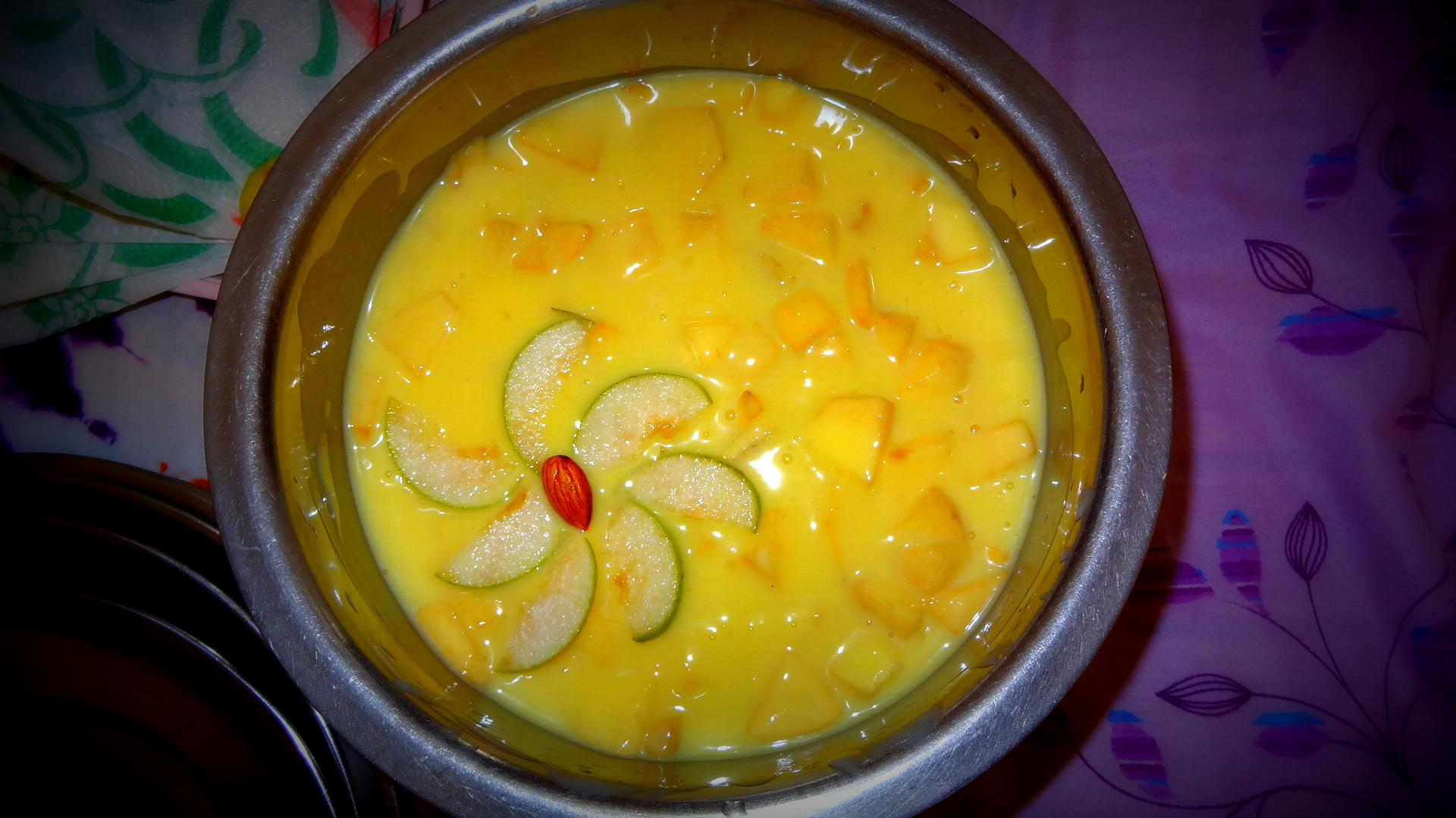 Mango custard